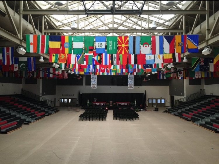 THS MUN